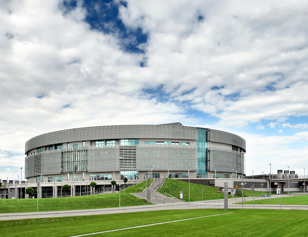 sport and show arena Ergo Arena in Gdansk and Sopot, Poland